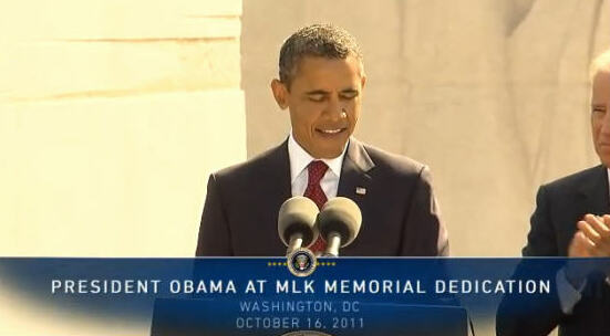 Still shot from remarks made by President Barack Obama at the official Oct 16, 2011 dedication of the MLK Memorial, Washington, DC.